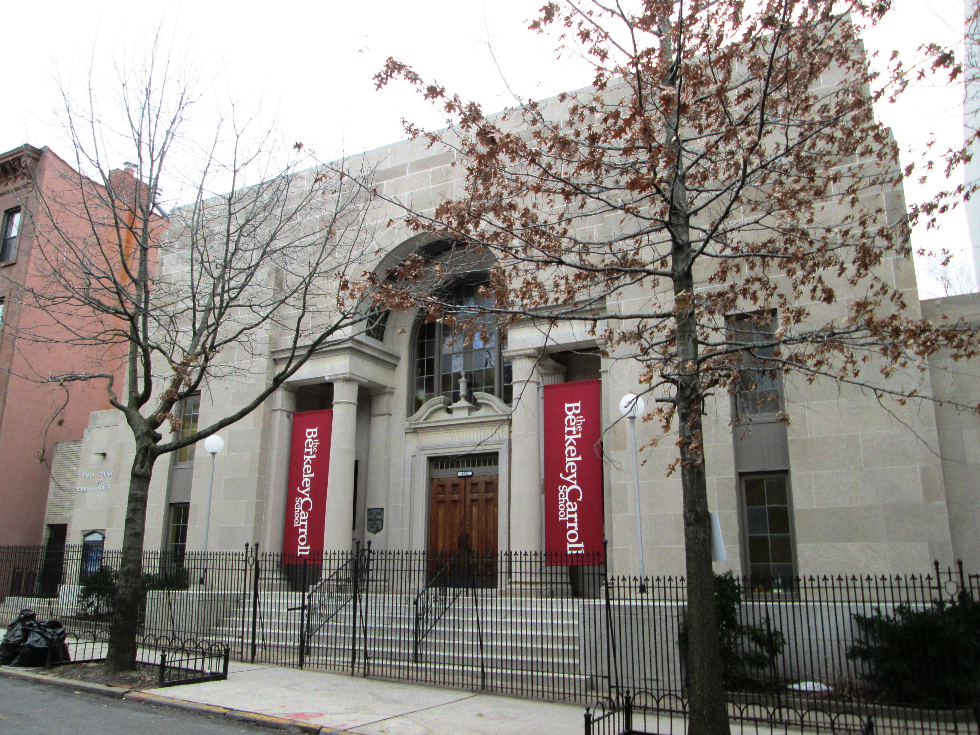 The First Church of Christ, Scientist at 156 Sterling Place between Seventh and Flatbush Avenues in the Park Slope neighborhood of Brooklyn, New York City was built in 1931. In 2011, the building was bought by the nearby Berkeley Carroll School, which uses it for offices and student assemblies; although the Church continues to hold services in the sanctuary. (Sources: NYC GIS map) and Brownstoner)